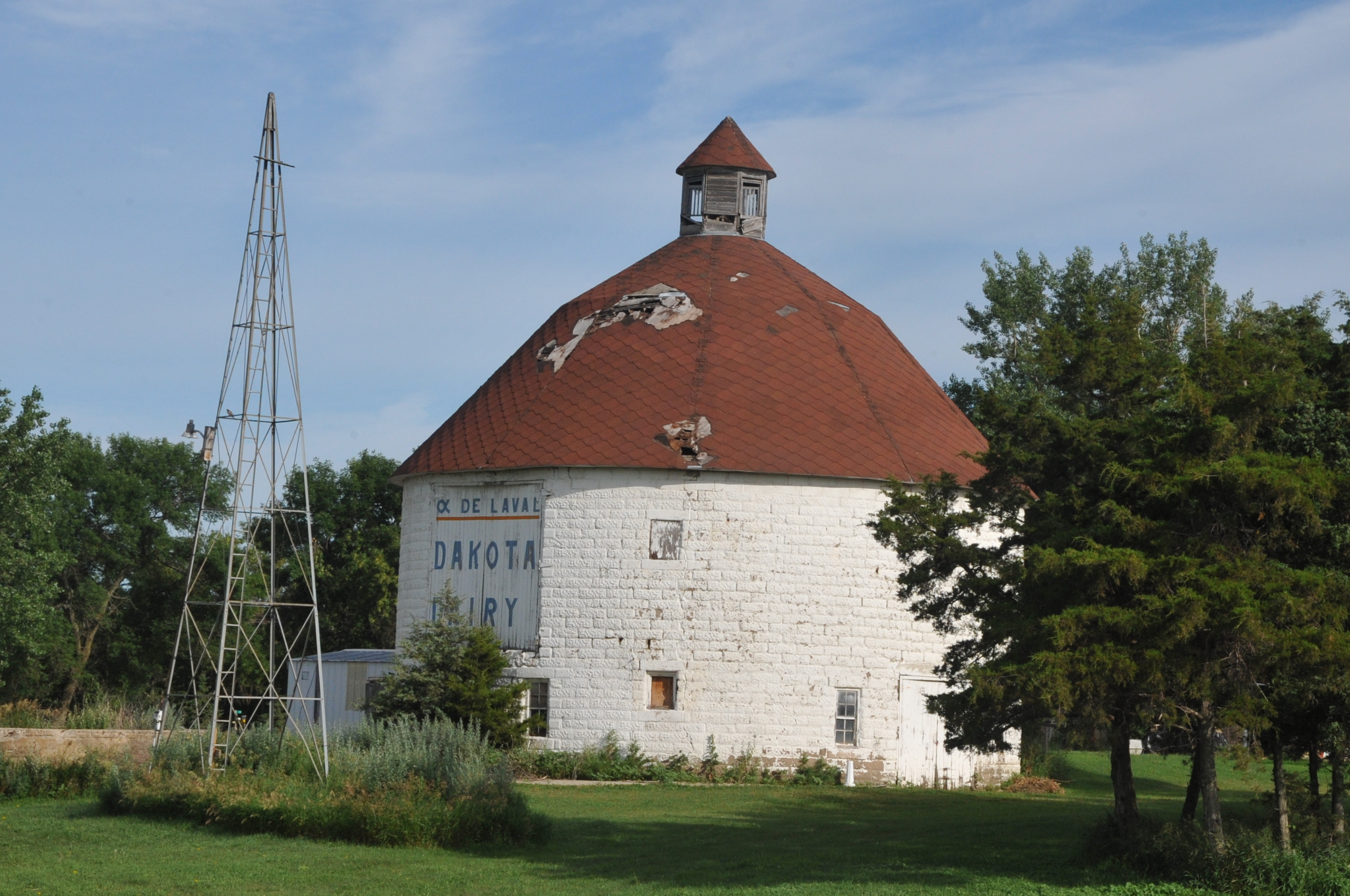 BUILT 1909-1910 FOR $1500 BY EMMINGER WHO MOVED FROM WISCONSIN BUT ONLY LIVED ON THE FARM FOR FOUR YEARS.